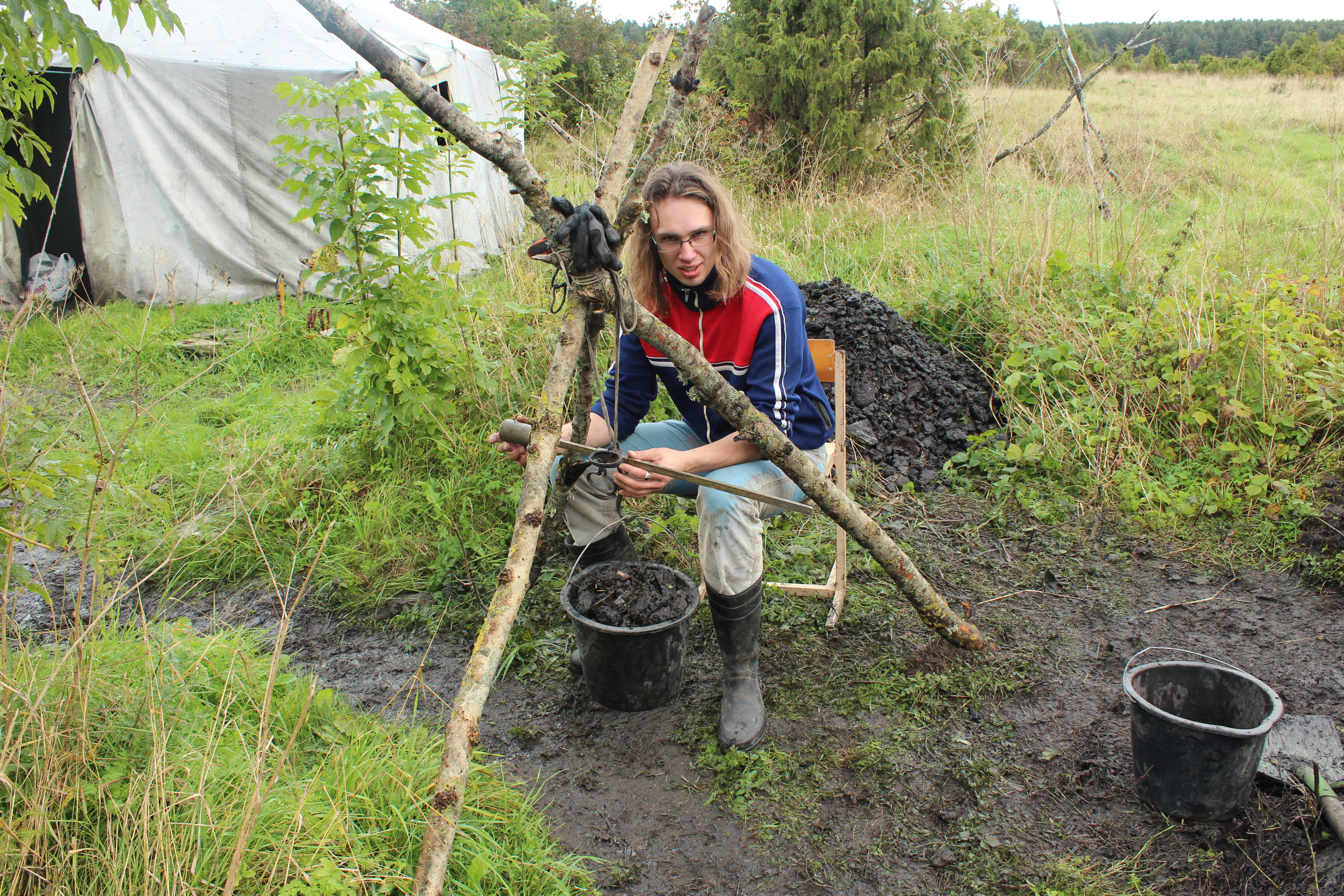 Weighing of slag during archaeological excavations at the Käku smithy site. PhD student Martin Malve from the University of Tartu is operating the scales. The slag pile behind the archaeologist weighed 1,3 tonnes.